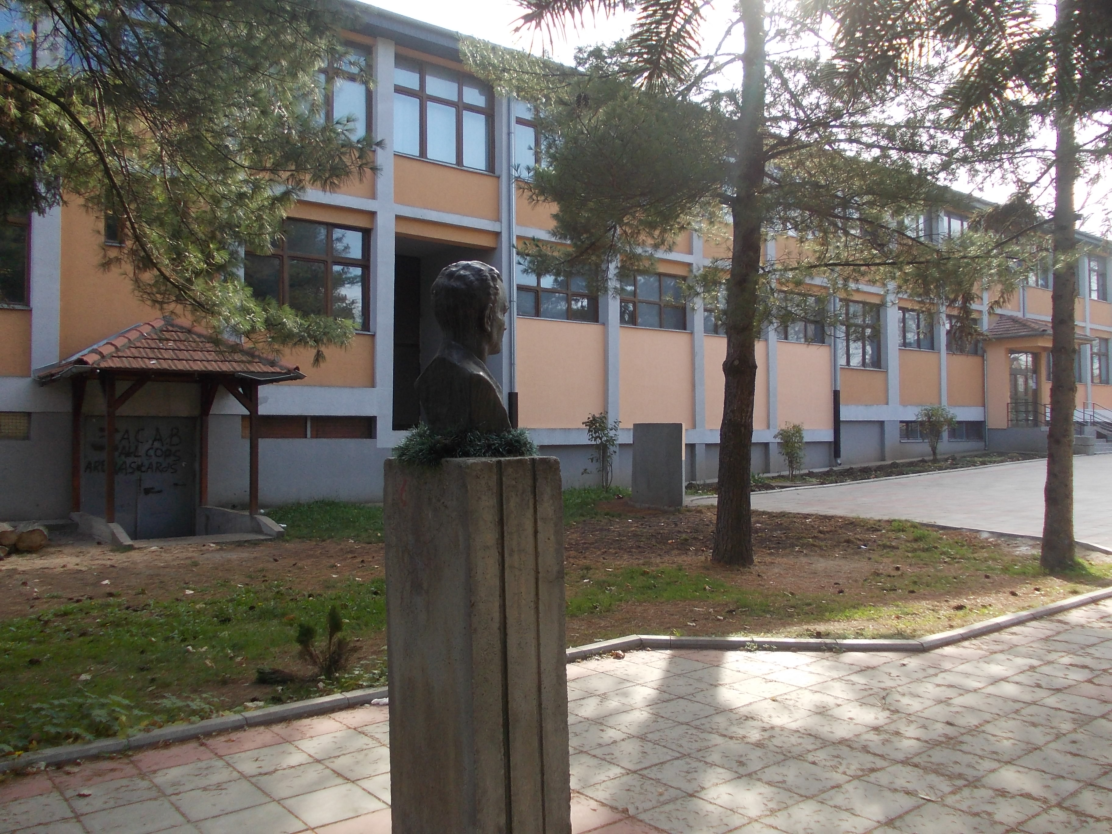 Bista narodnog heroja Radislava Nikčevića u Majuru